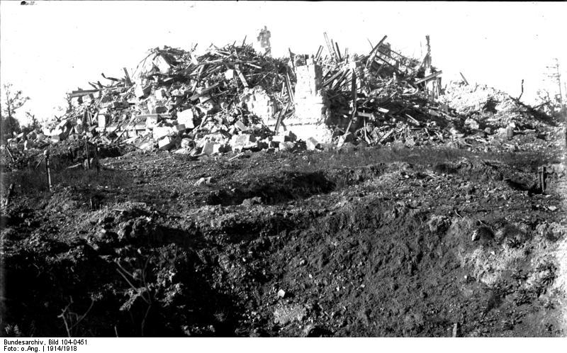 The castle of Hollebeke (B) was destroyed during the Second Battle of Ypres in 1915 and subsequently taken by German forces.